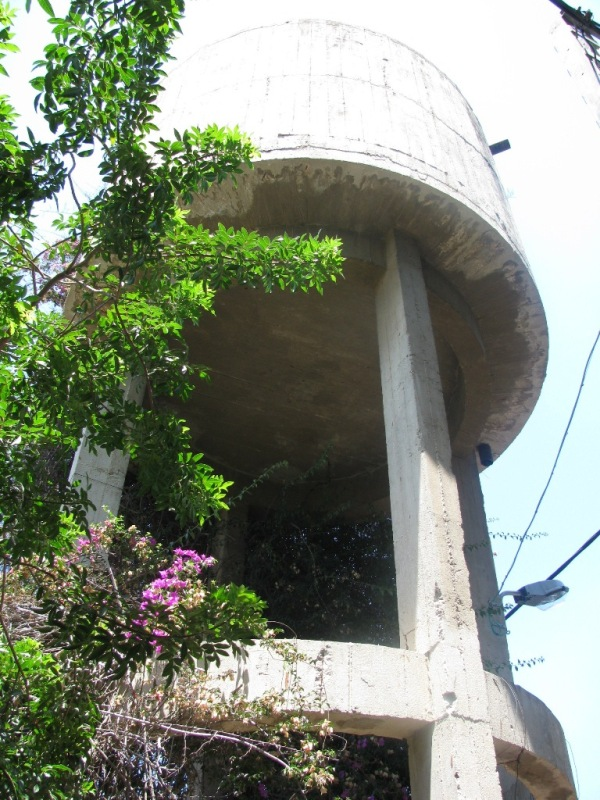 Water Tower in Avihayil